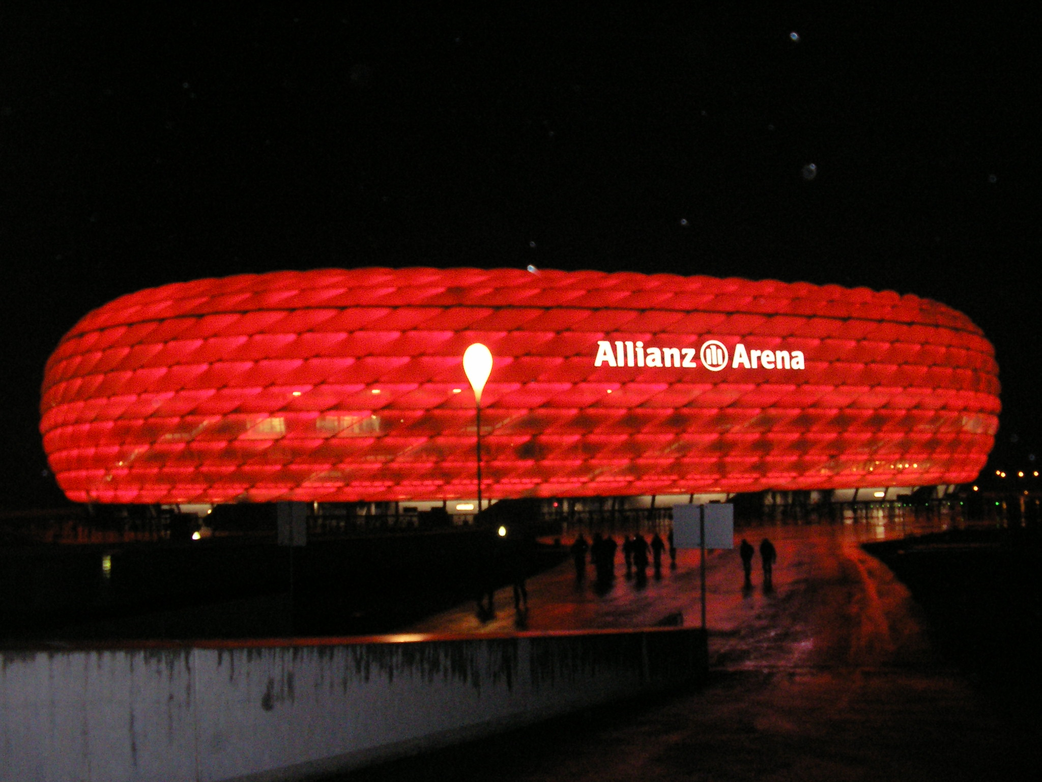 Allianz Arena stadium, illuminated red at night